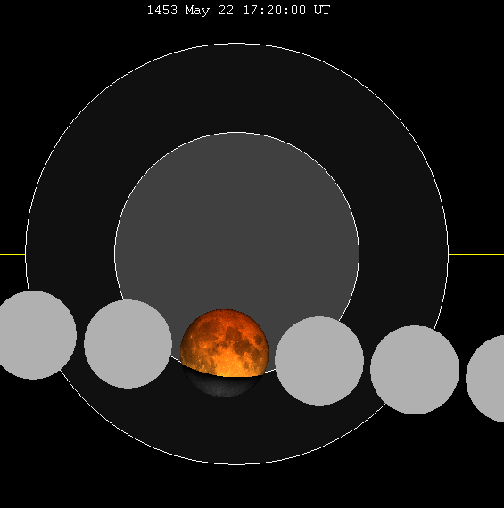 May 1453 lunar eclipse chart of moon's path through the earth's shadow. thumb